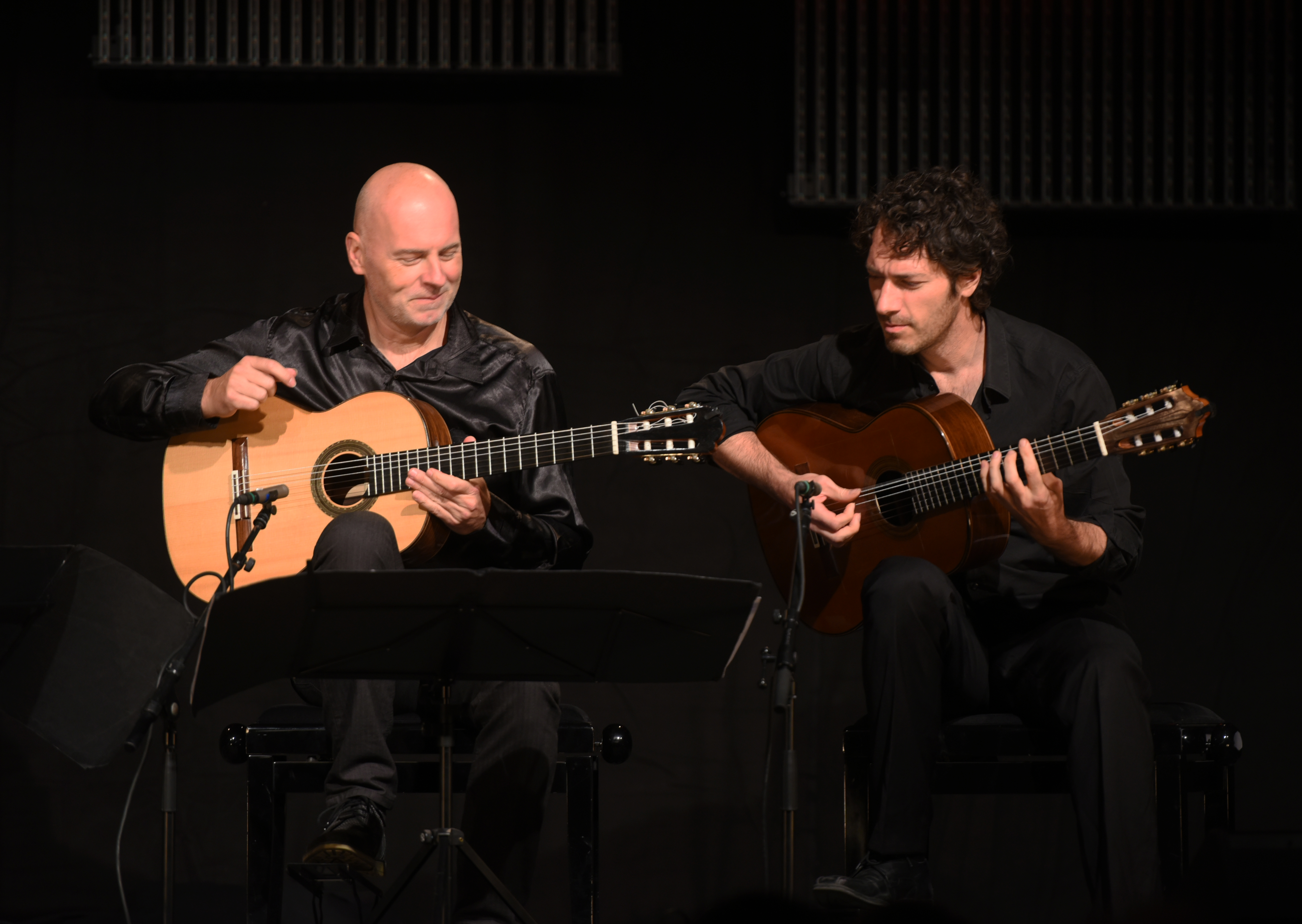 Thomas Fellow & Reenko playing at Hamburger Gitarrenfestival 2018